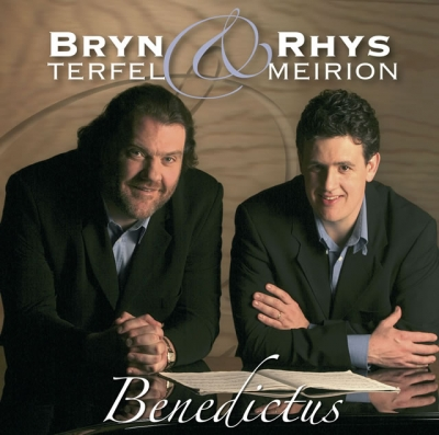 Artwork for the Album Benedictus by Bryn Terfel/rhys Meirion